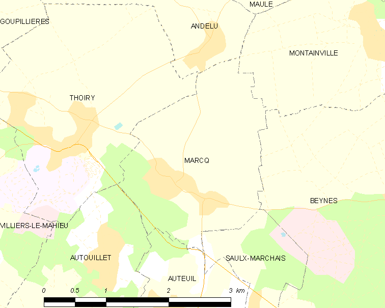 Map of French municipality Marcq